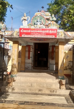 Thanjavurlakshminarayanaperumaltemple தஞ்சாவூர்லட்சுமிநாராயணபெருமாள் கோயில்